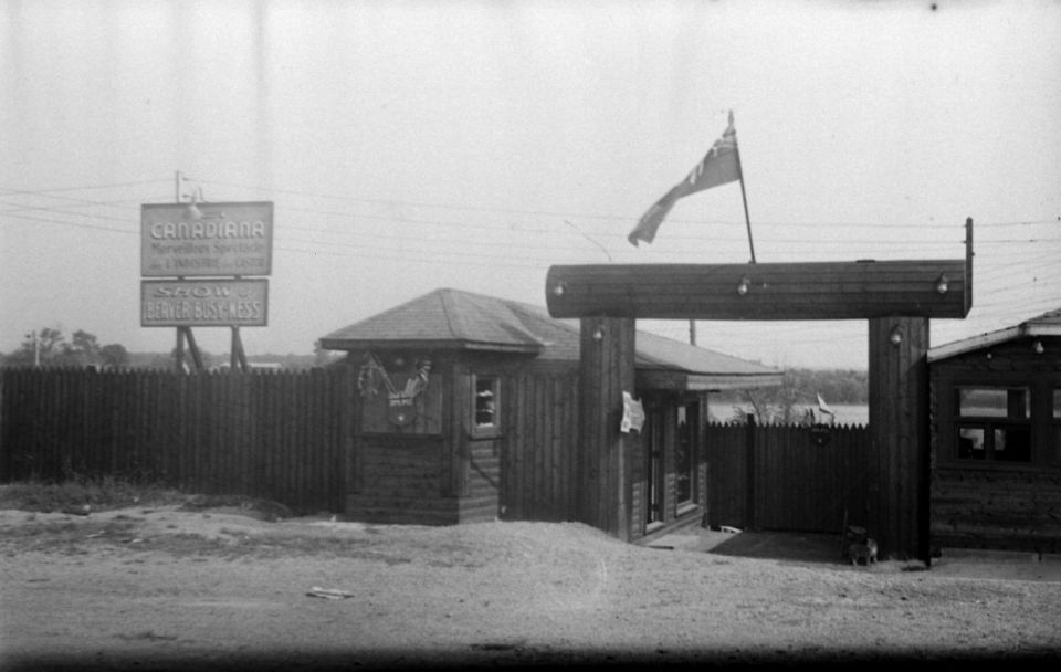 We see the sign announcing the spectacle of the beaver industry and the historic village buildings Canadiana Moore Rawdon.